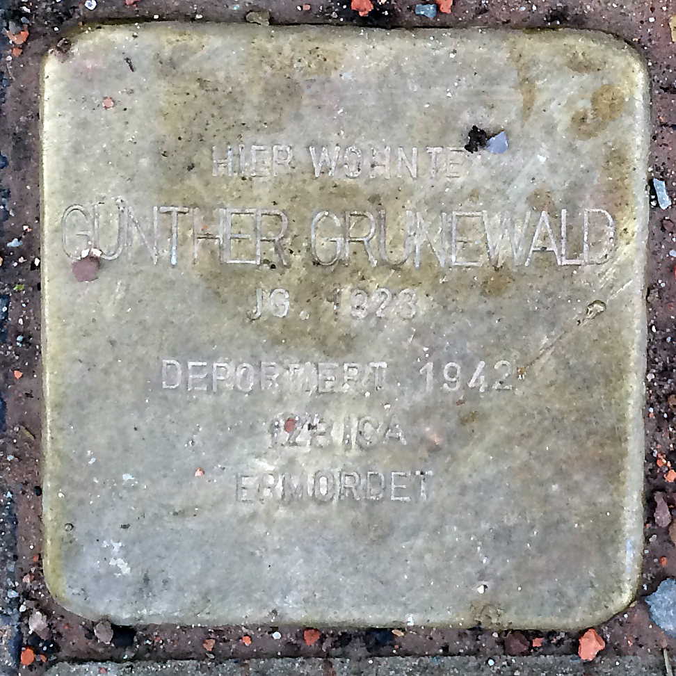 Stolperstein - Stumbling Stone in Nettetal, NRW, Germany Günther Grunewald